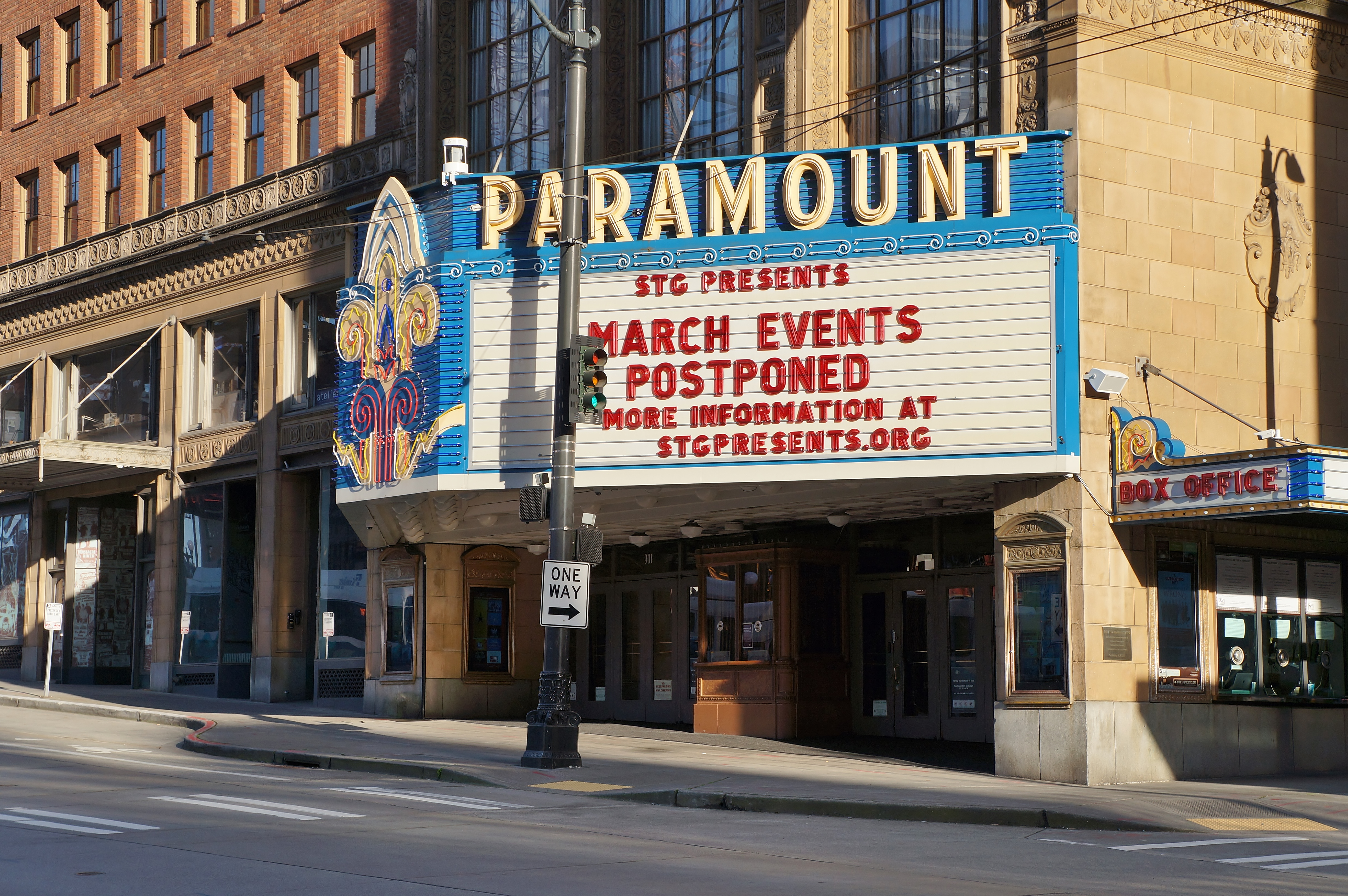 The marquee of the Paramount Theatre in Seattle, Washington, with a notice of postponed events due to the 2019–20 coronavirus pandemic.